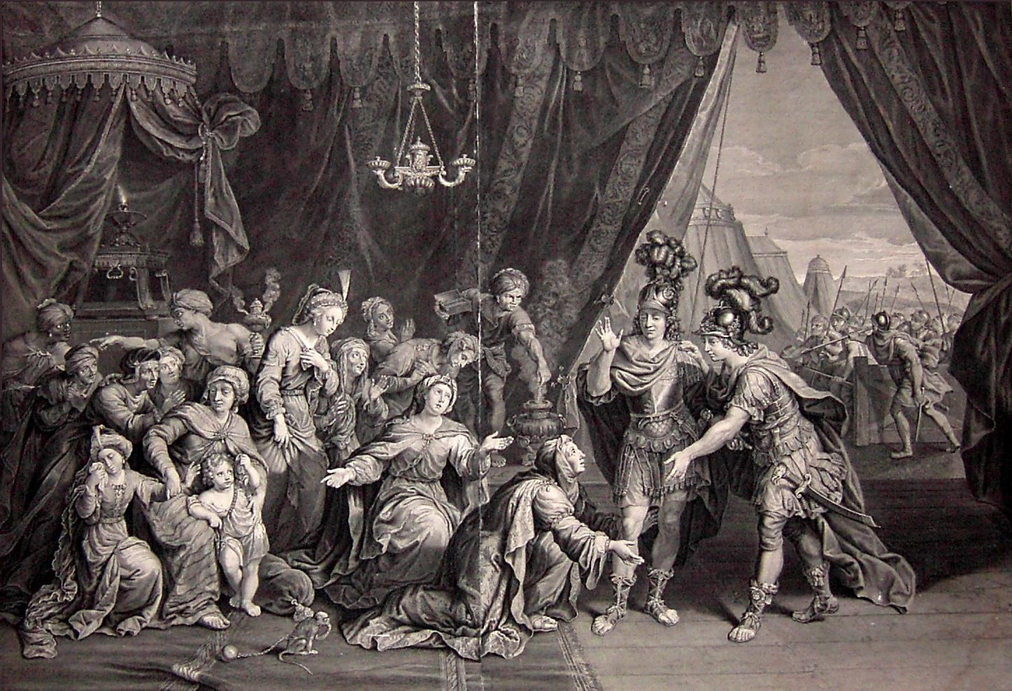 Alexander the Great and the family of the Persian king Darius III